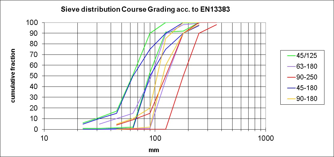 Rock grading according to the requirements of EN13383 for Course Gradings (CP)